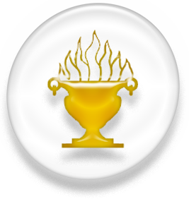 Symbol of Zoroastrianism, white and golden version.